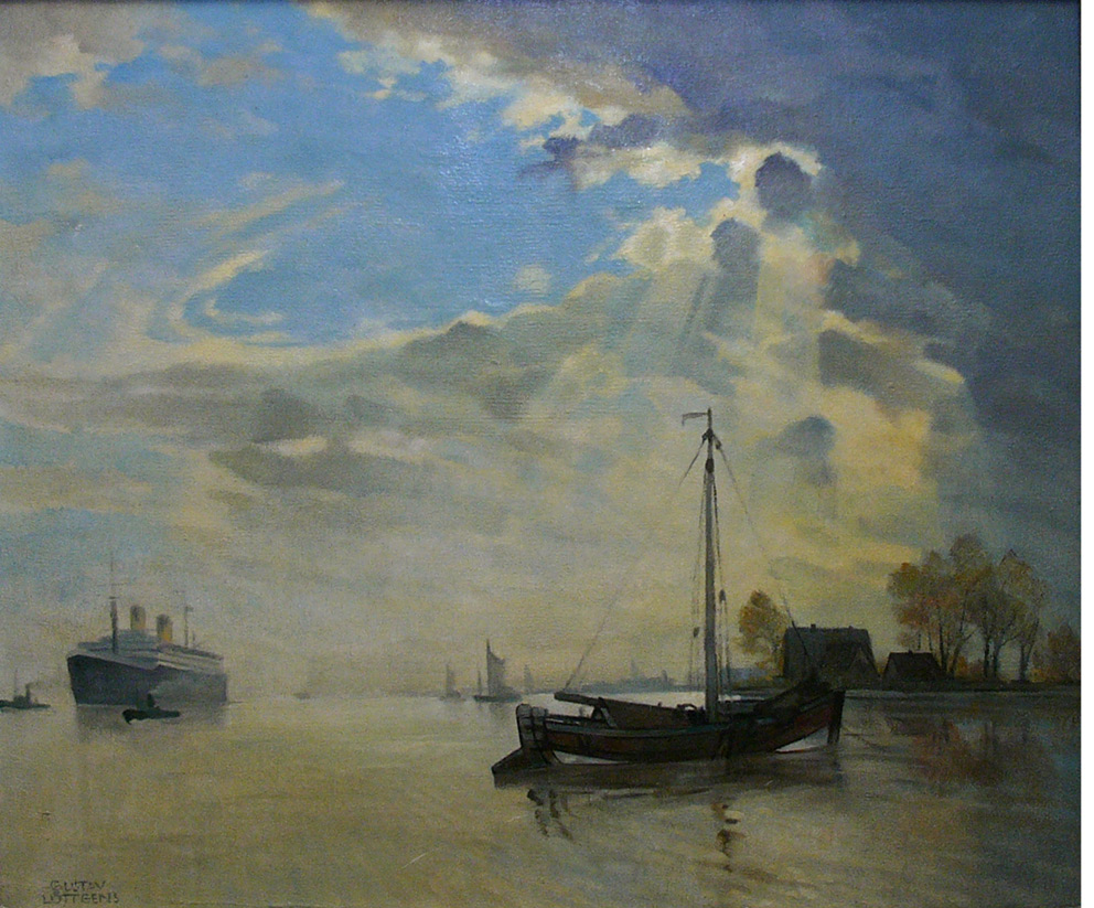 SS Bremen sailing into Bremerhaven 1933. Oil painting by Gustav Lüttgens 1933, 72x82 cm